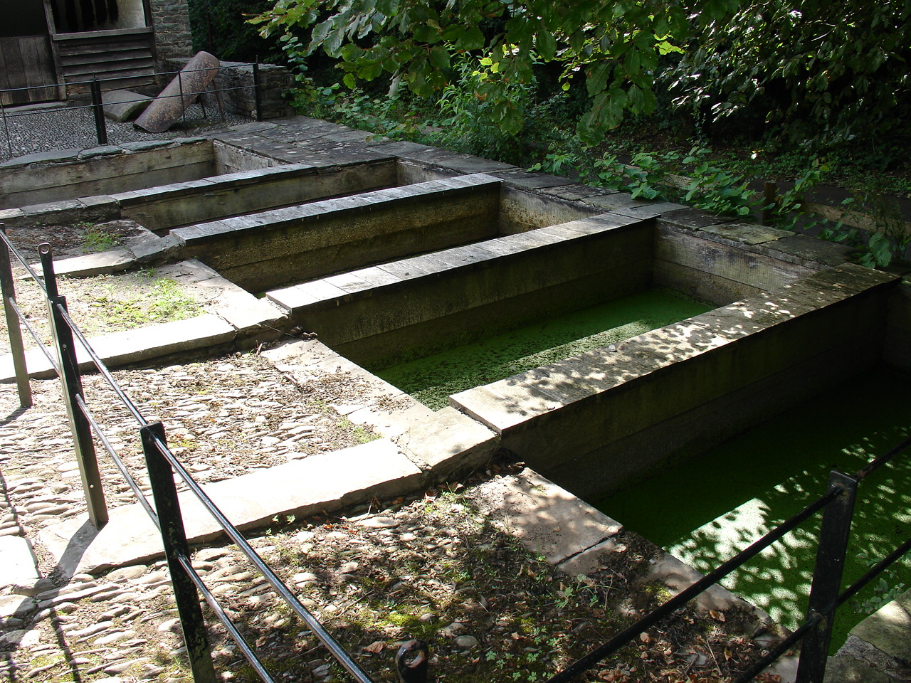 St. Fagans, National Museum Wales (Cardiff, UK): Tannery (tanning ponds)